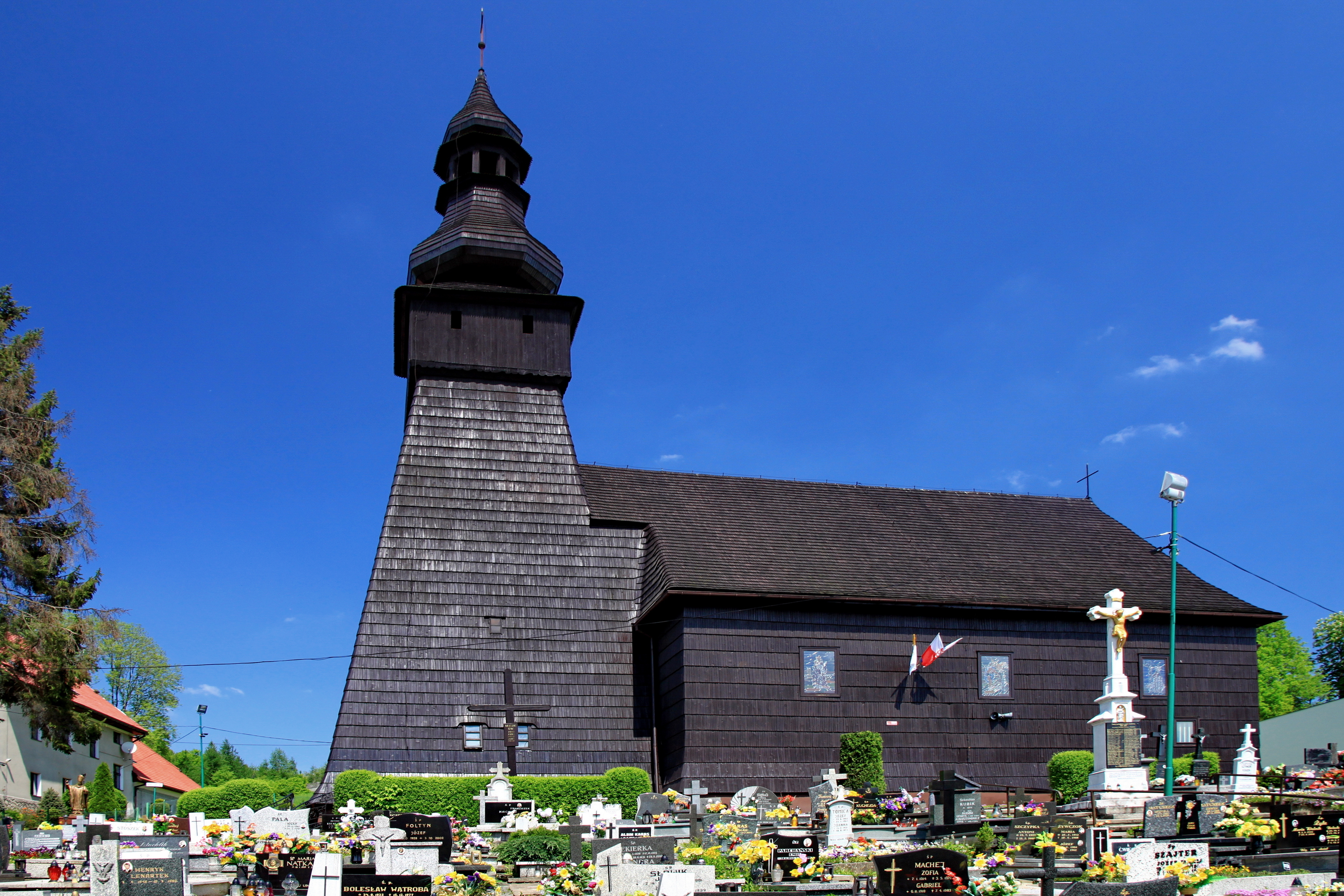 Kończyce Wielkie, Saint Michael Archangel parish church, build in 1771